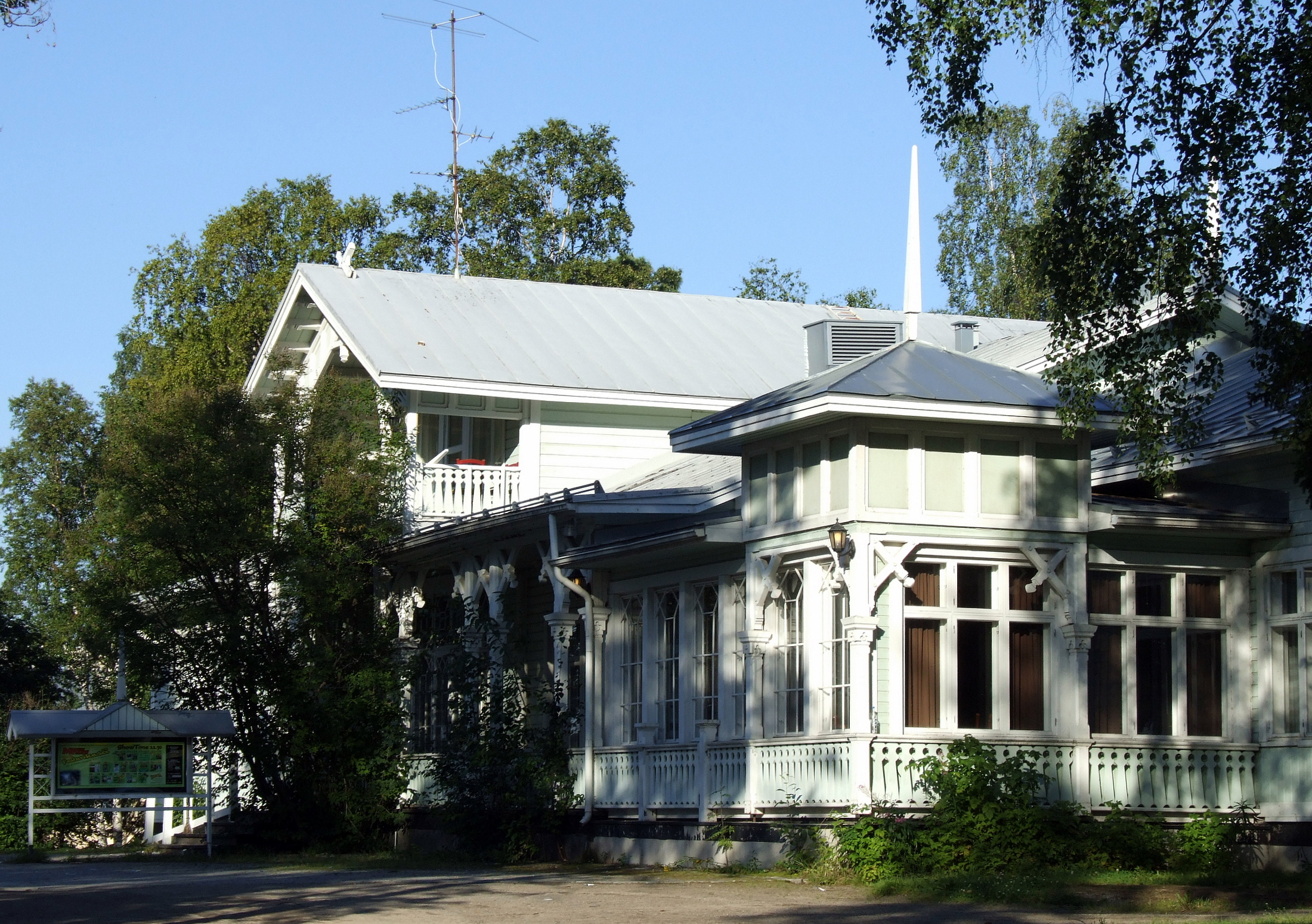 The pavilion building in the Meripuisto park in Kemi, Finland was designed by architect Waldemar Wilenius in 1893. Nowadays the building hosts restaurant Hullun Mylly.